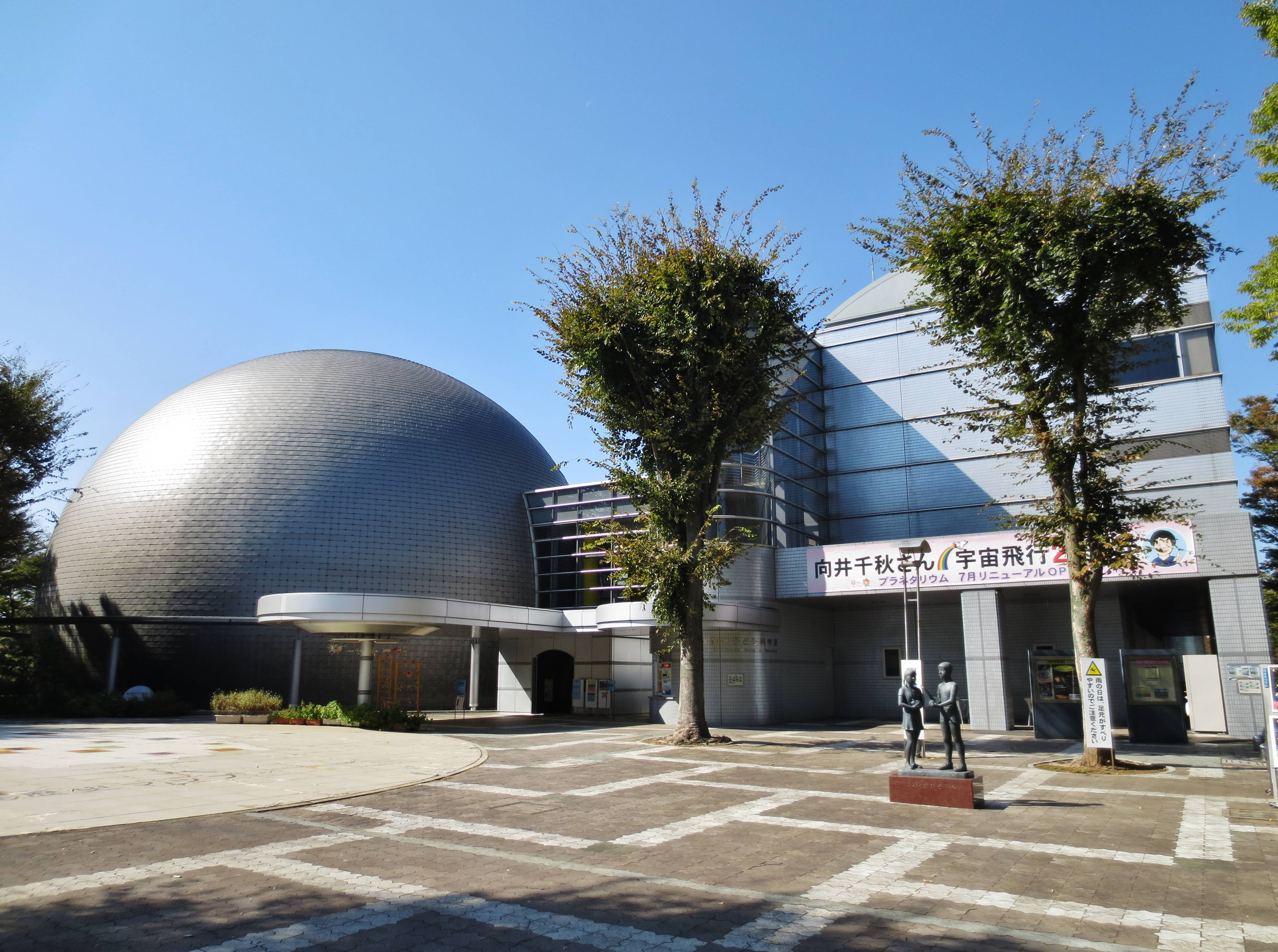 Mukai Chiaki Children's Science Museum.